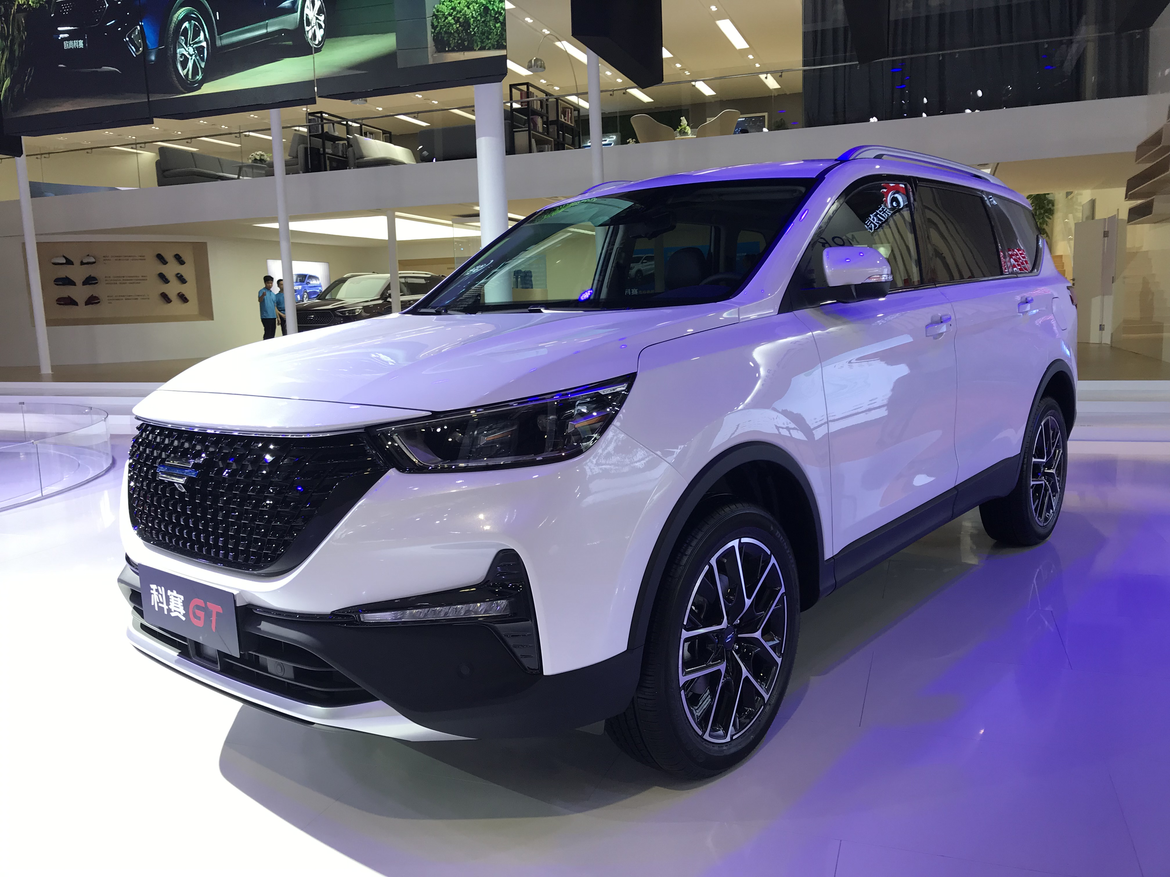 Oushan COS1° GT front